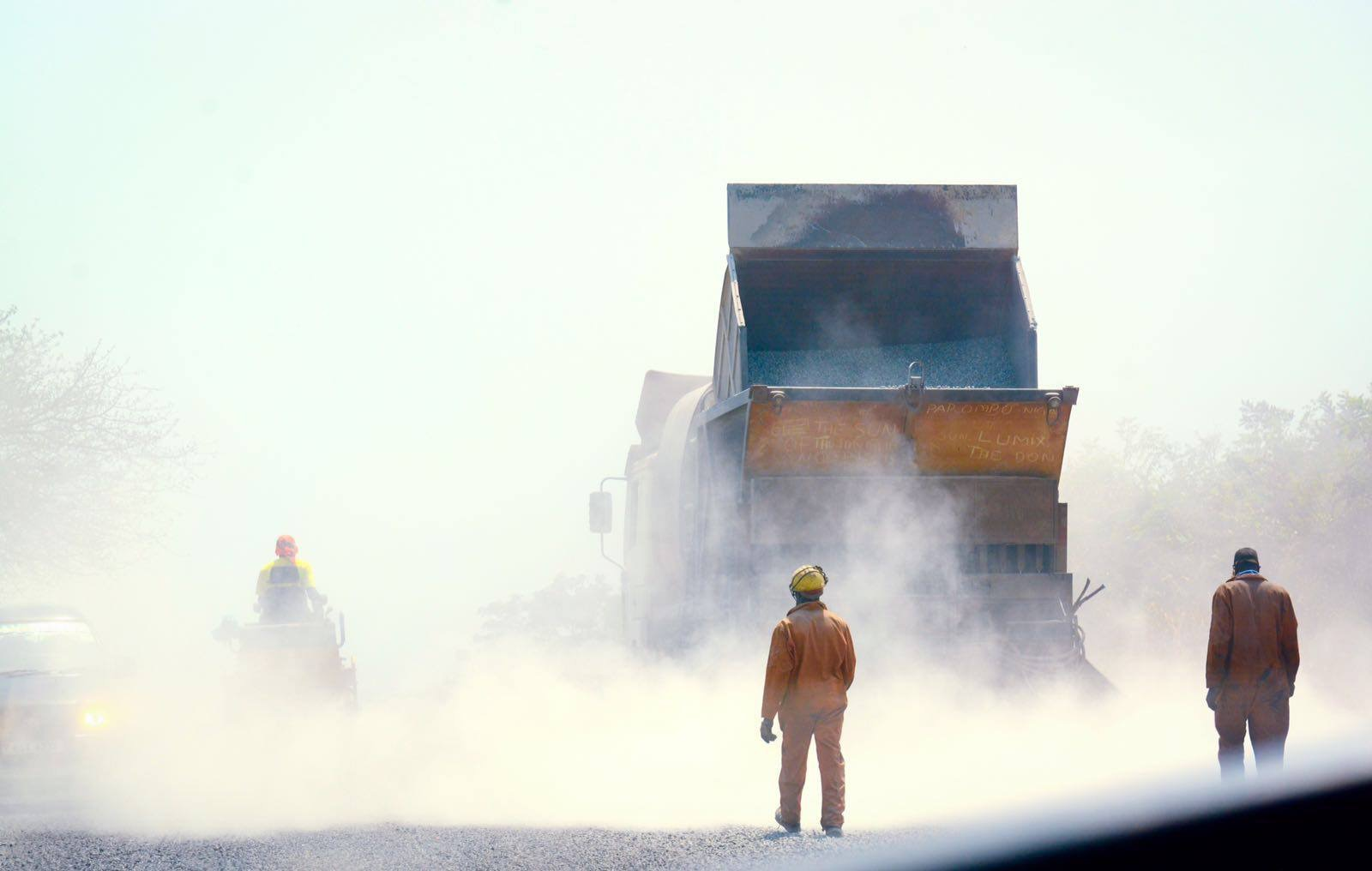 Men at work along Guru Road near Karuma Dam Project during the Gulu Highway construction.I was seated in the backseat with a camera when I realised the activity was picture-worth. This is an image of "African people at work" from Uganda